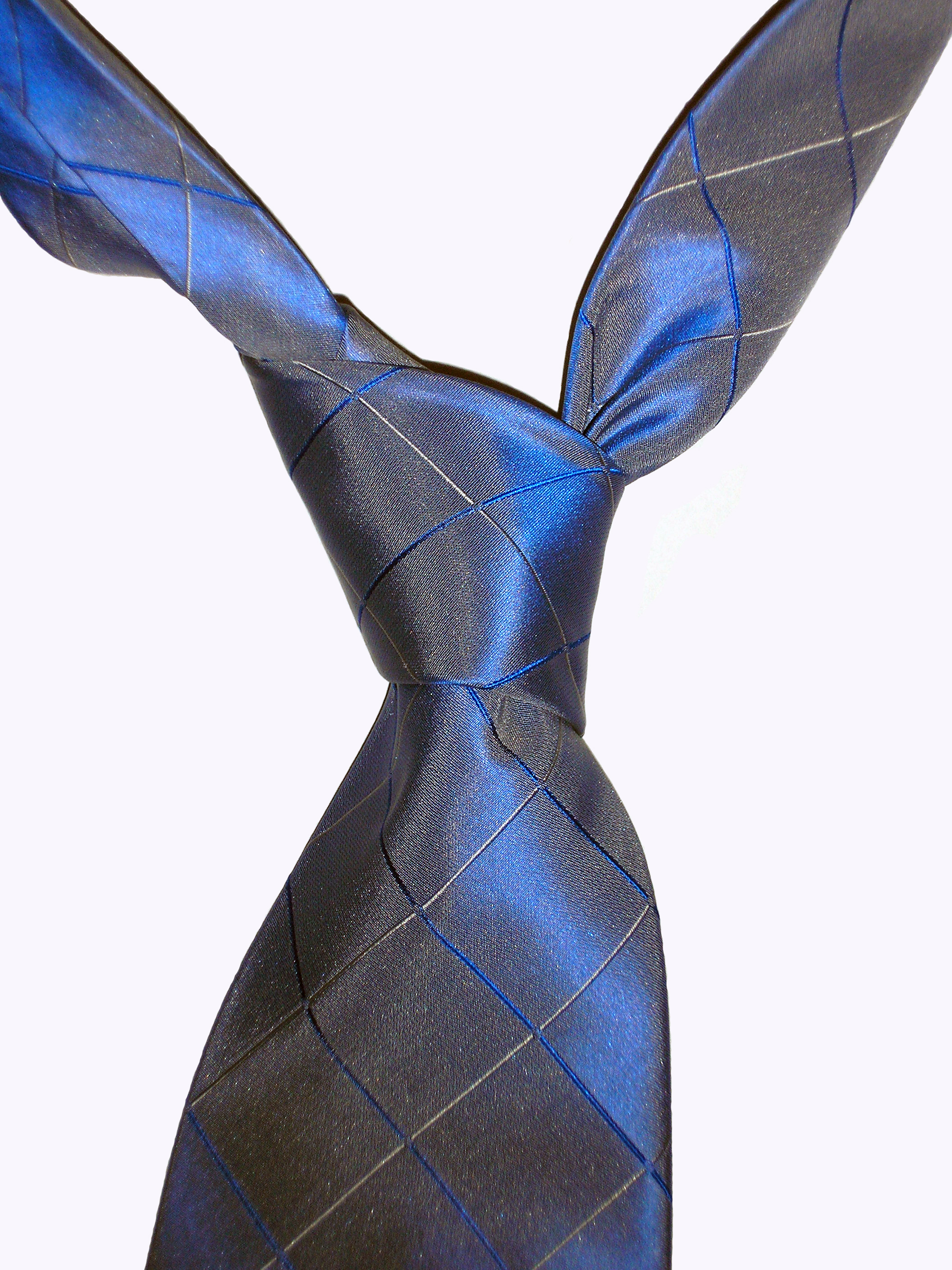 Four-In-Hand knot in a blue, patterned, silk tie.